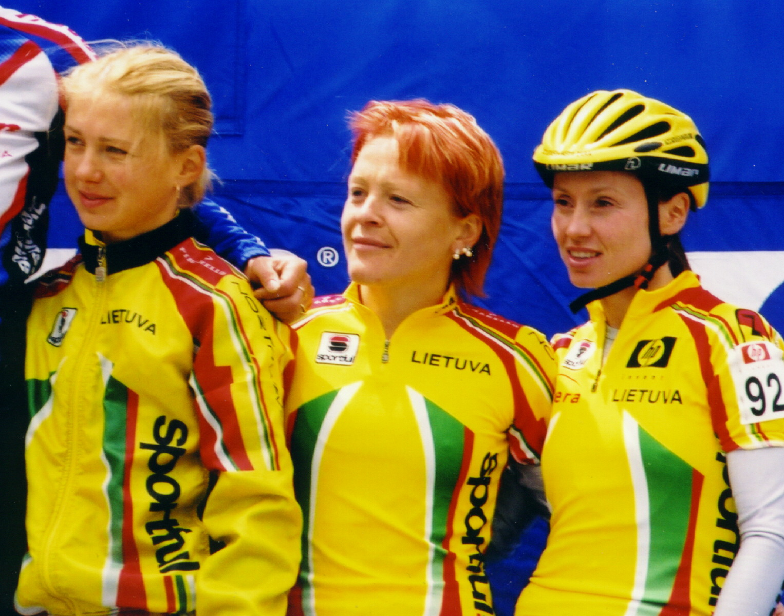 Modesta Vžesniauskaitė , Diana Ziliute, and Jolanta Polikeviciute stand side by side on the podium following Stage 4 (Stanley to Ketchum) of the 2002 Women's Challenge bicycle race.